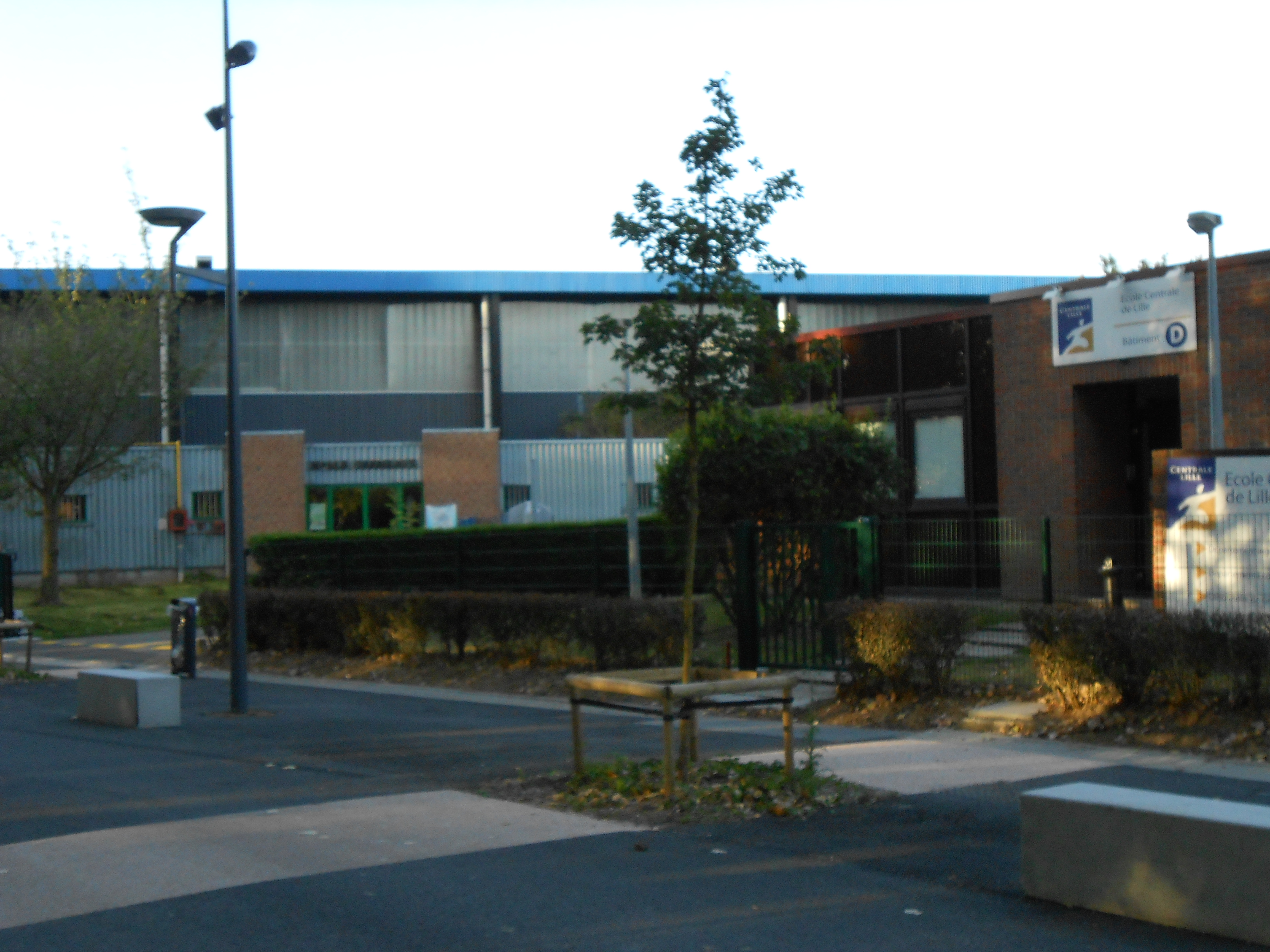 École centrale de Lille - LM2O laboratory for modelisation and management of organisations and Halle Gremeaux (sport hall)